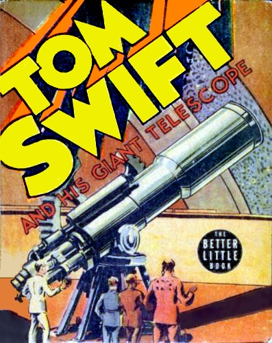 Cover of 1939 Tom Swift book